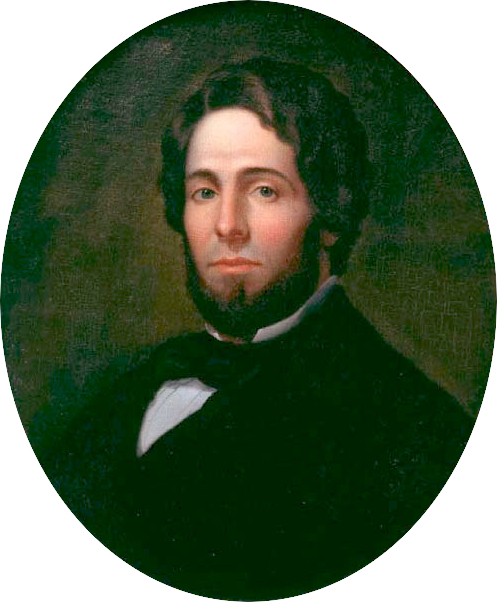 Herman Melville